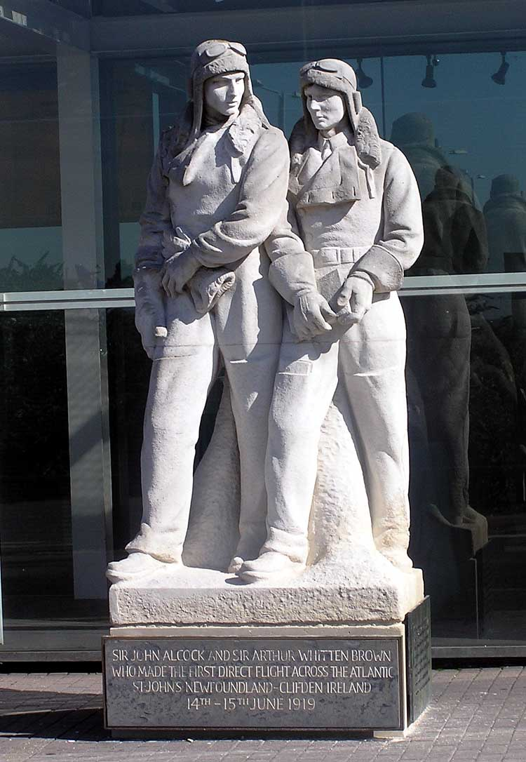 Statue of Alcock and Brown at London (Heathrow) Airport, August 2004. Taken by Adrian Pingstone and released to the public domain.